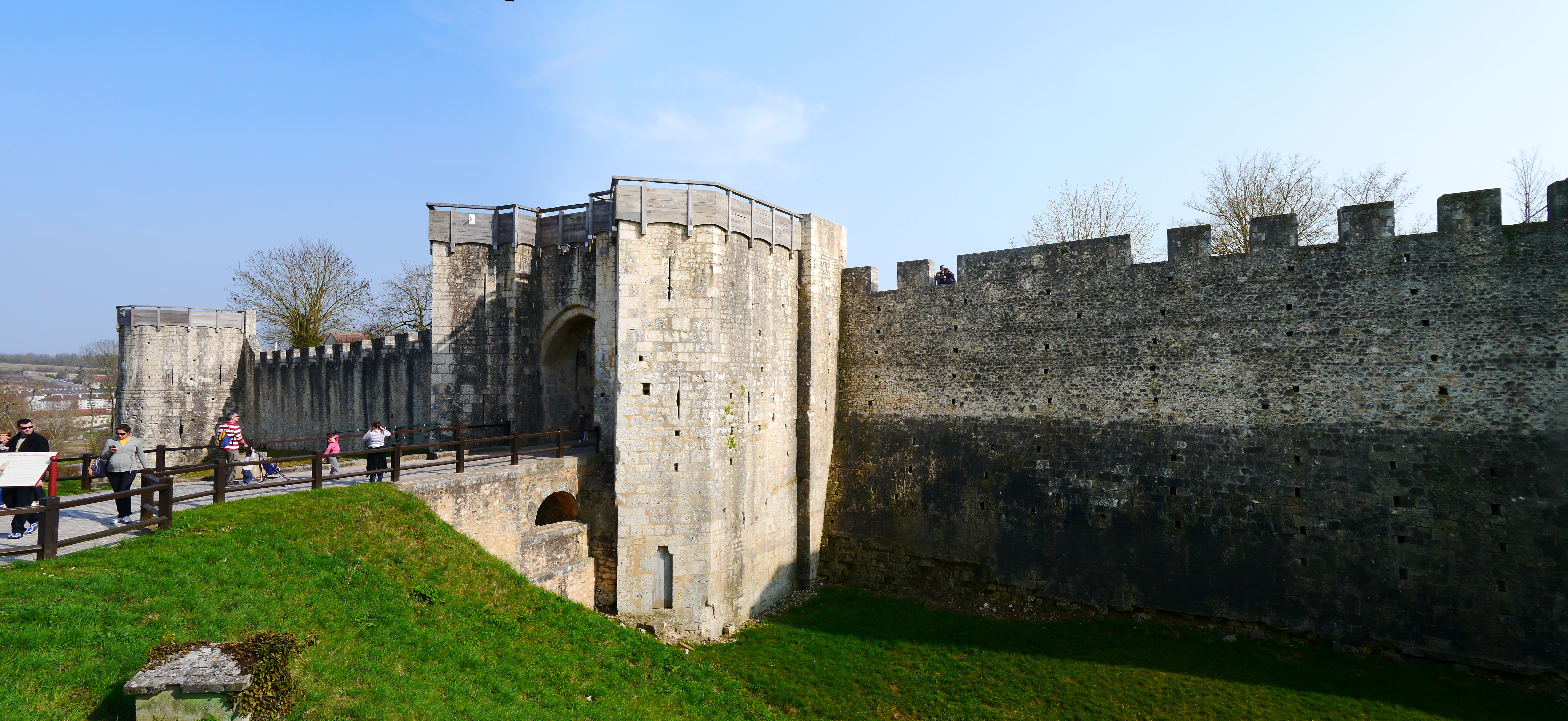 City Walls, Provins. Panoramic view of the porte de Jouy.